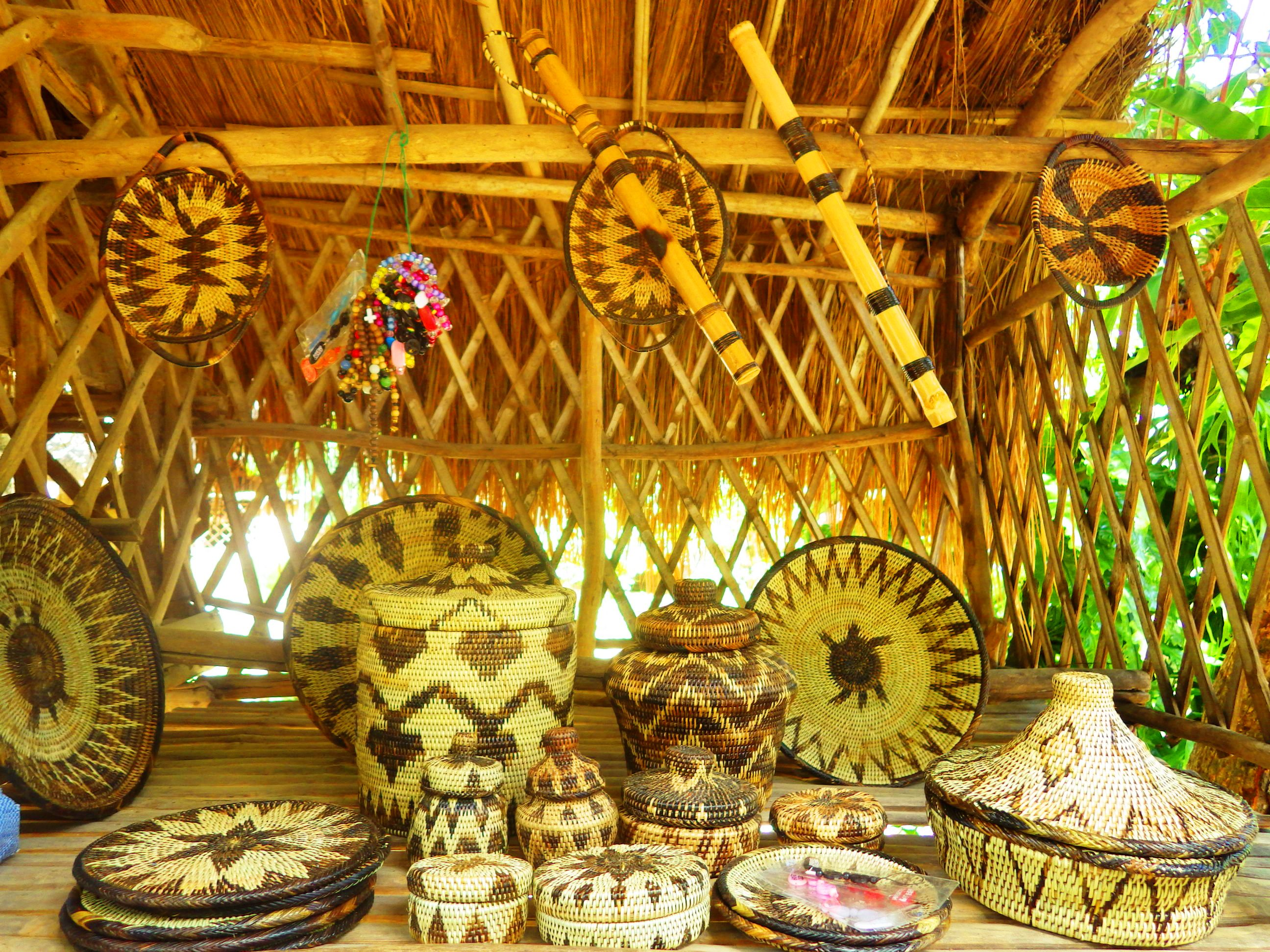 The Iraya Mangyan Community Village is located in Talipanan, Puerto Galera in the island of Mindoro. The Iraya Mangyans are skilled basket weavers and produce crafts of high quality.